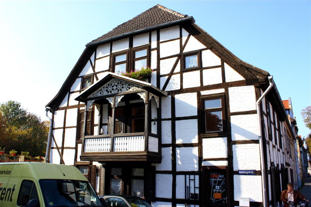 Building in Quedlinburg / Germany